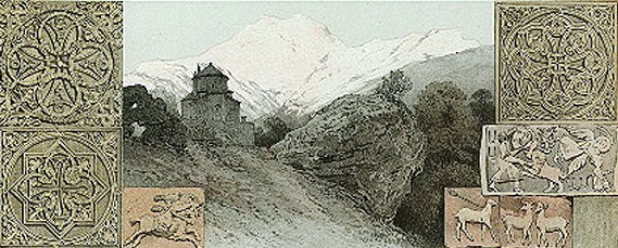 Georgia. Life, details and paintings of the Church of Zion.